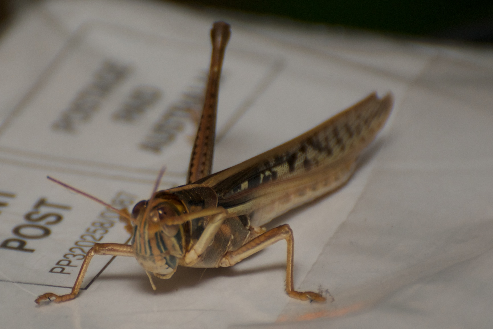 Spur-throated Locust, Austracris guttulosa Photographed in Perth, Western Australia